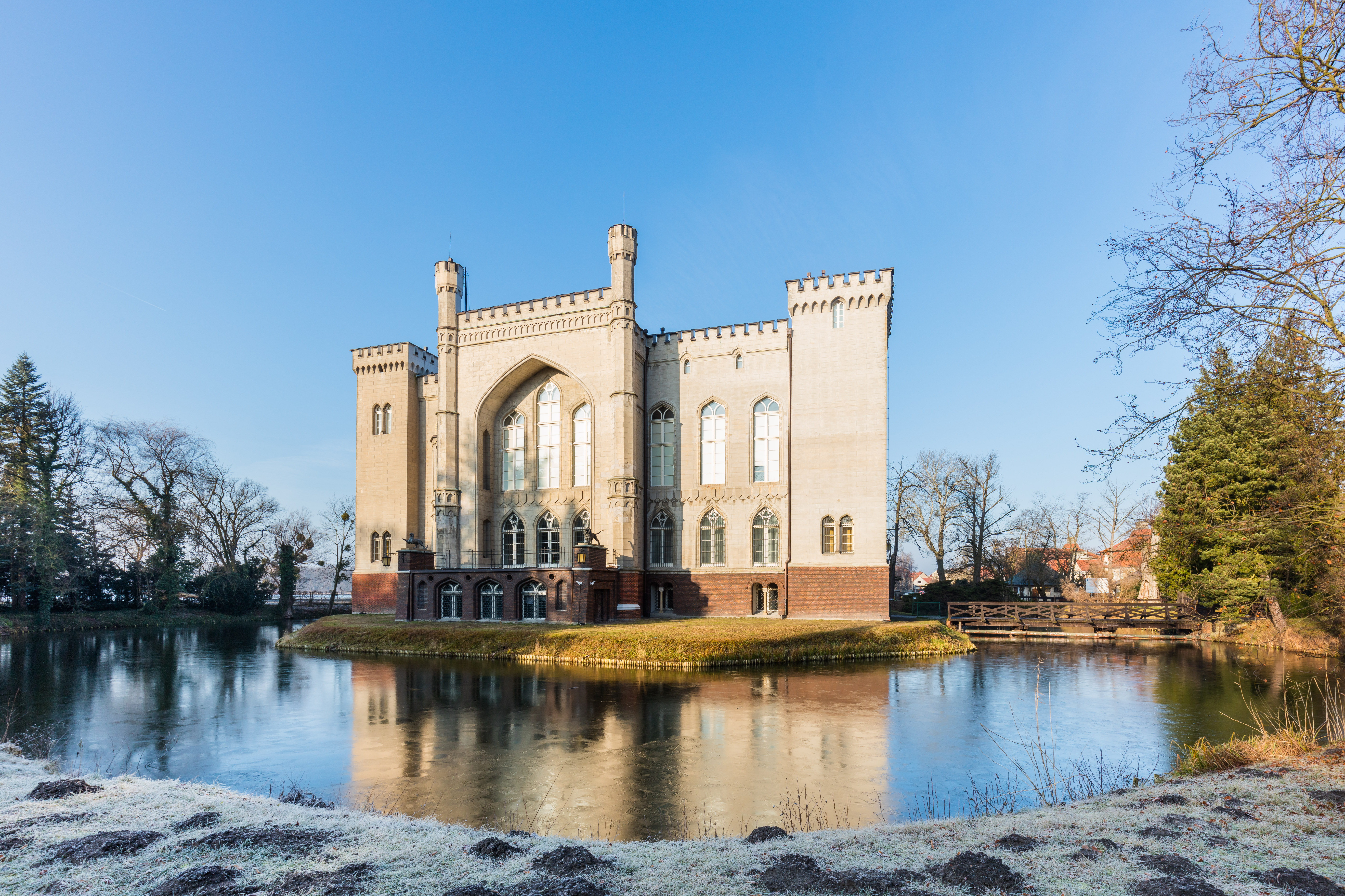 Kórnik Castle, Kórnik, Poland